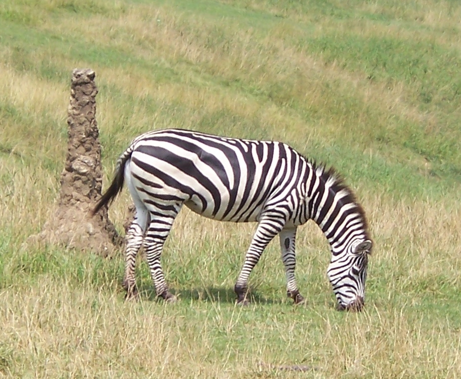 Grants Zebra